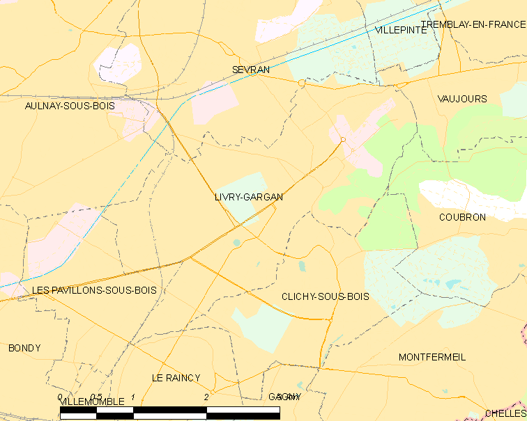 Map of French municipality Livry-Gargan